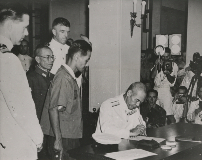 Vice Admiral Ruitako Fujita signing the Japanese Surrender of Hong Kong, 16 September 1945. Our Catalogue Reference: Part of CO 1069/456. This image is part of the Colonial Office photographic collection held at The National Archives. Feel free to share it within the spirit of the Commons. Please use the comments section below the pictures to share any information you have about the people, places or events shown. We have attempted to provide place information for the images automatically but our software may not have found the correct location. For high quality reproductions of any item from our collection please contact our image library